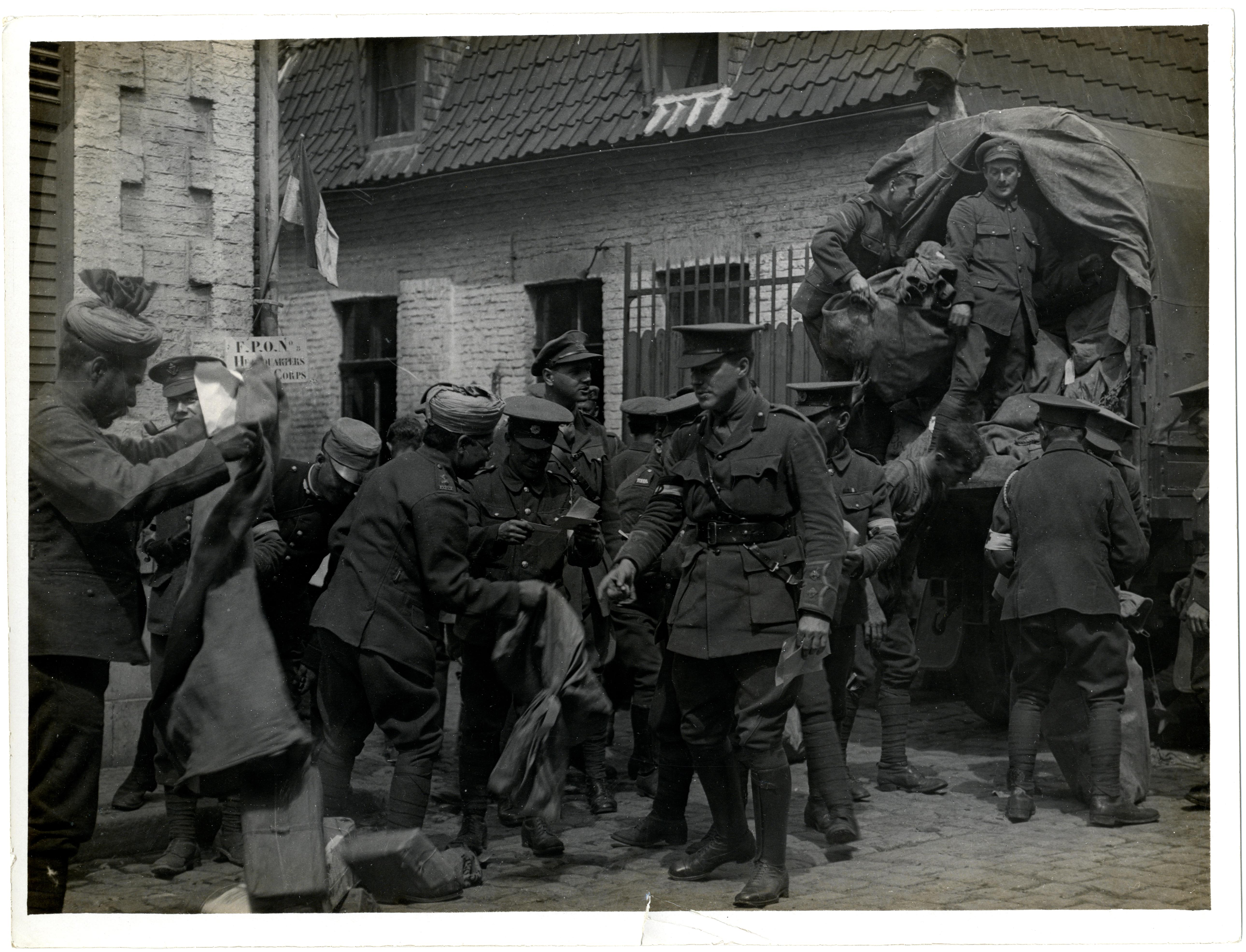 Field post office in a French town; the officer in the foreground [Lieut Bullard] was killed next day [Merville].